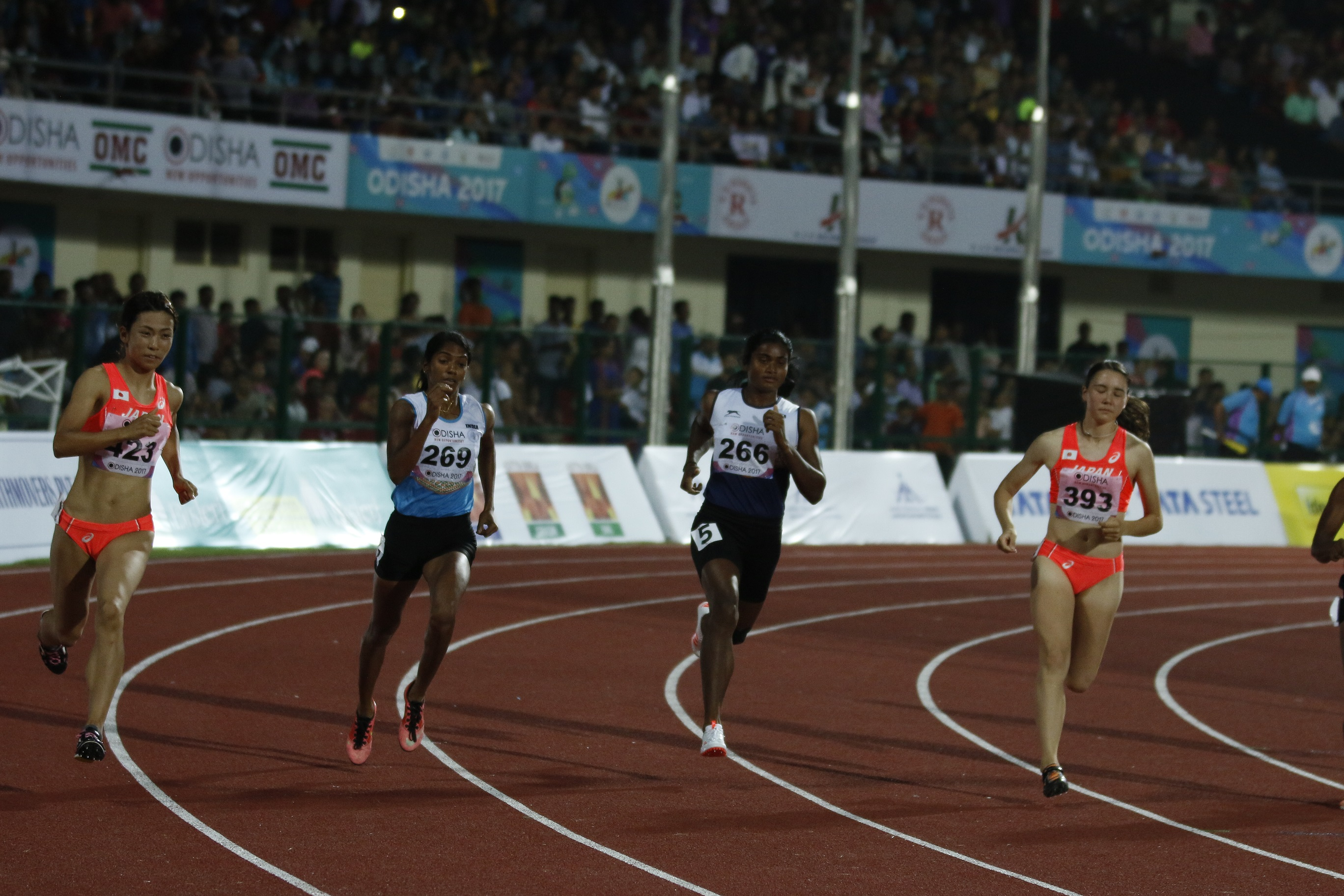 2017 Asian Athletics Championships at the Kalinga Stadium in Bhubaneswar, India